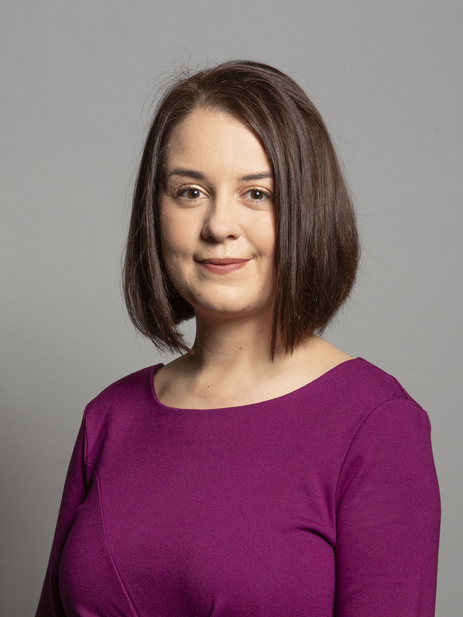 Official portrait of Stephanie Peacock MP 3×4 portrait of Stephanie Peacock